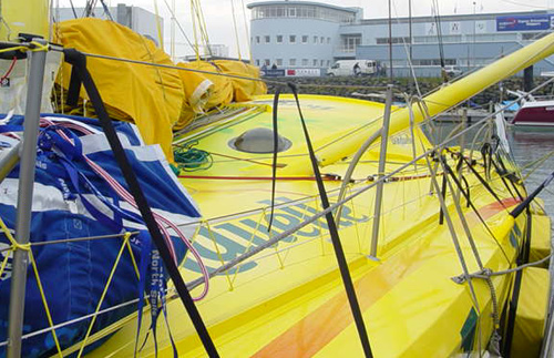 The IMOCA sailboat Bonduelle at the start of the 2004 edition of the Vendée Globe. Les Sables d'Olonne, France.